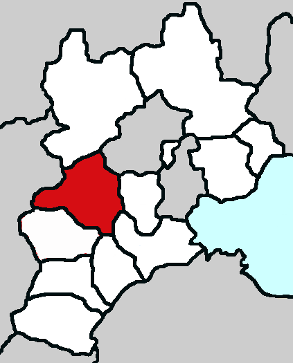 Baoding of Hebei, China Made by myself